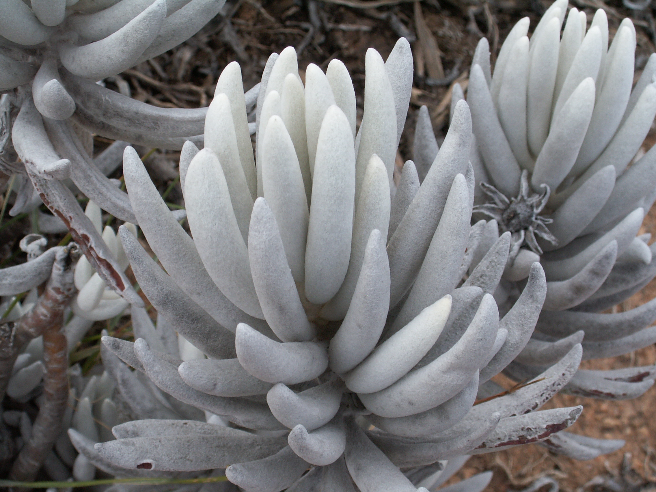 woolly senecio Senecio haworthii (Sweet) Sch.Bip., Asteraceae, Richtersveld National park, Northern Cape, South Africa